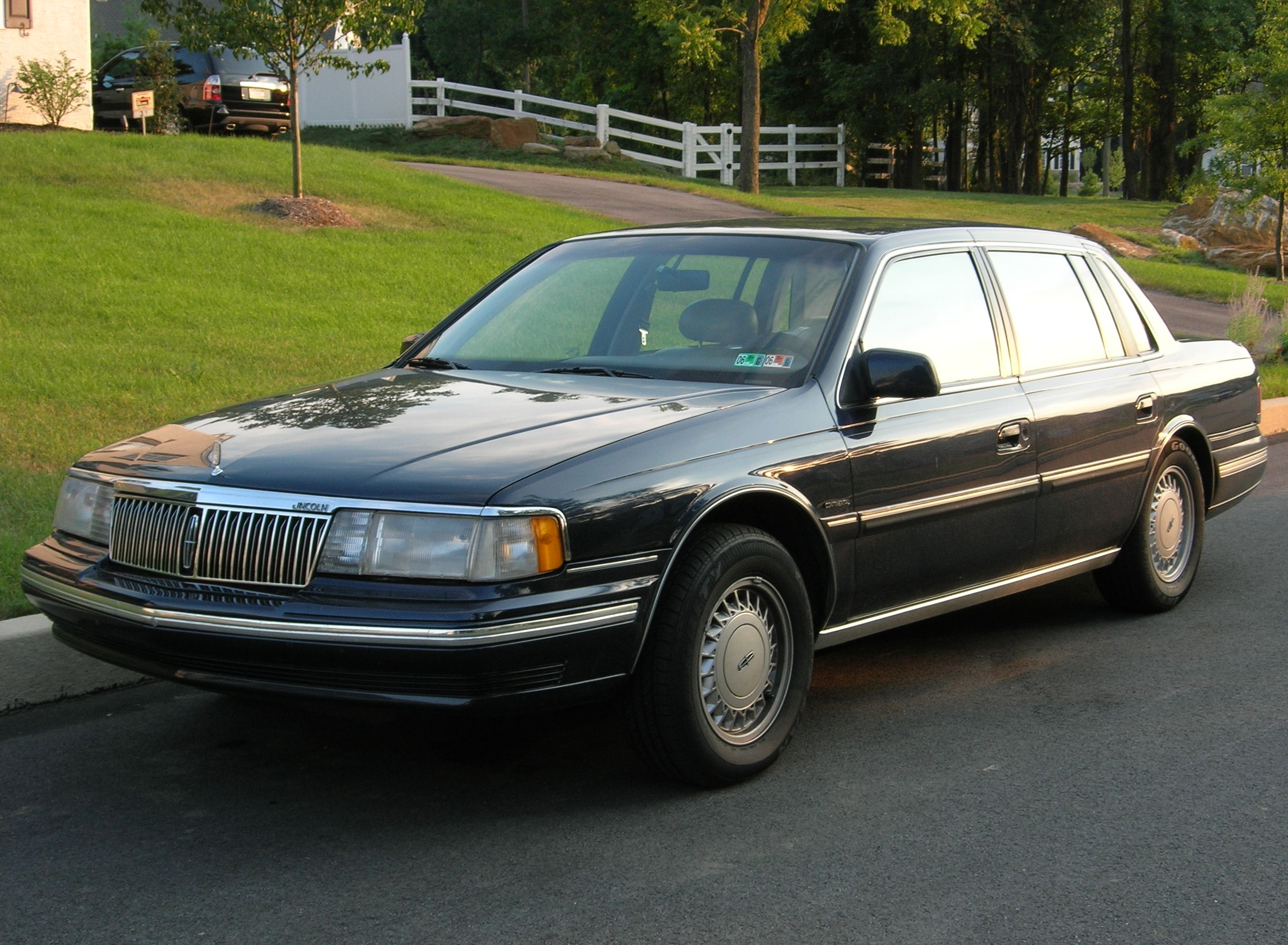 1991 Lincoln Continental